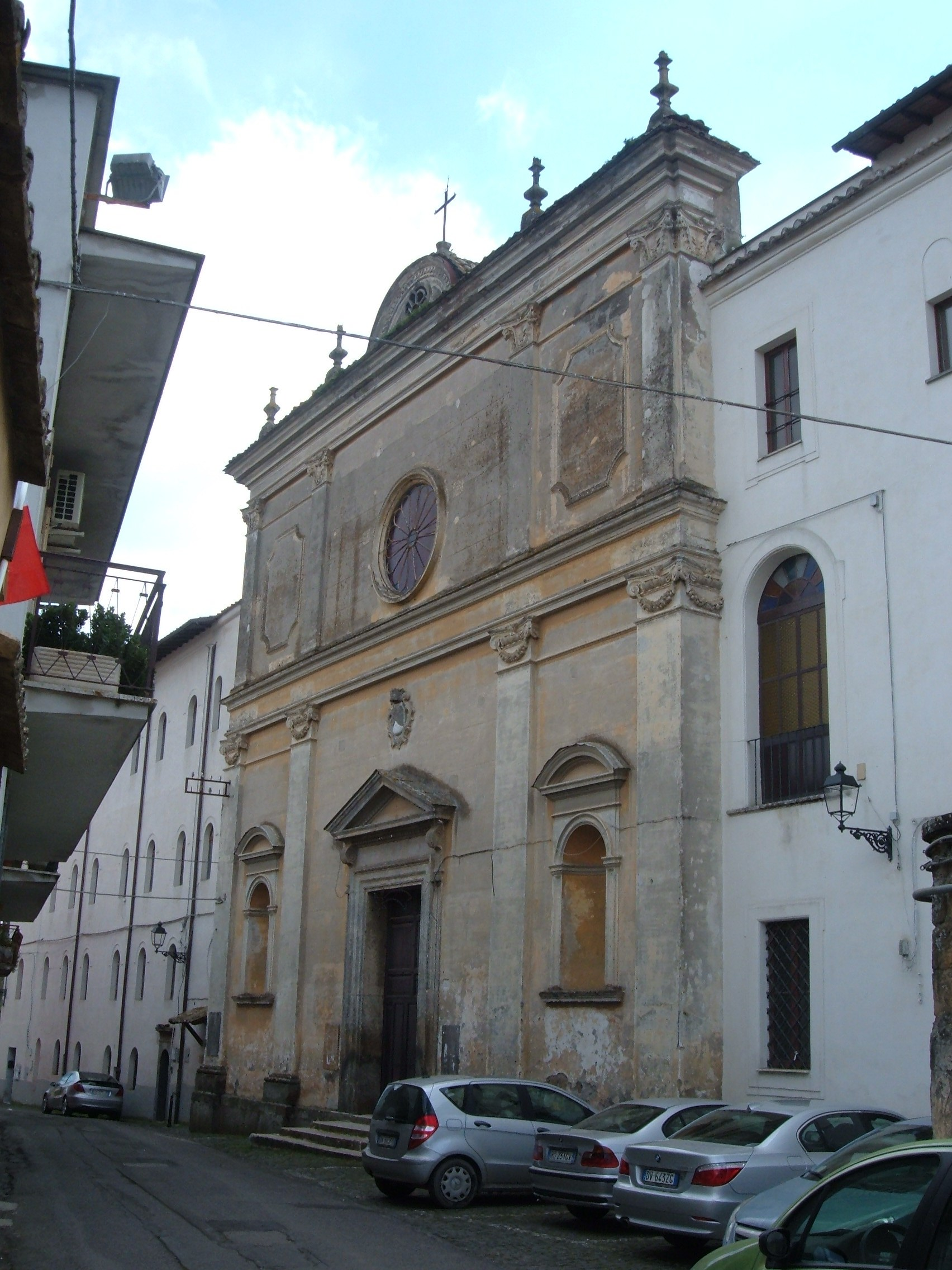 Church of San Tolomeo (Nepi)